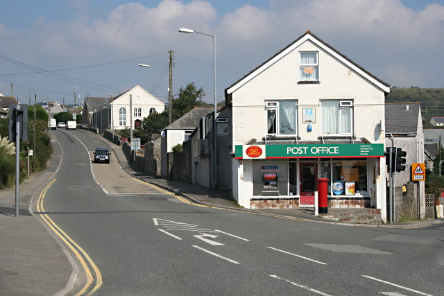 Carclaze. Carclaze is a one of the northern suburbs of St Austell. This photo was taken at the major road junction in the area looking north. The white fronted building up the road is Carclaze Methodist Church.